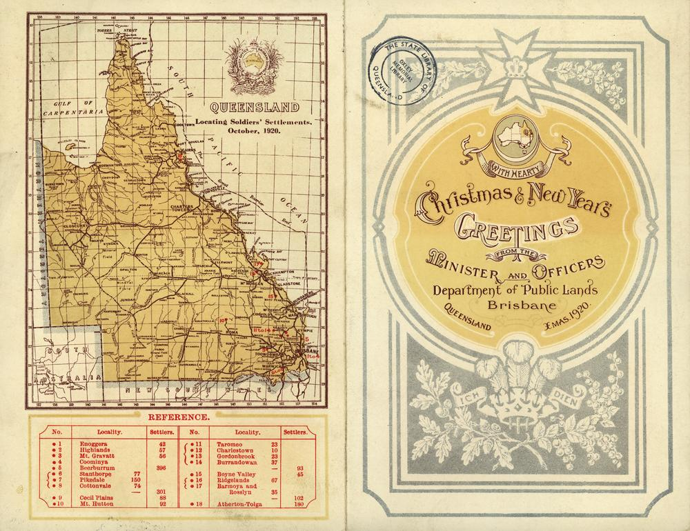 Christmas greetings from the Minister and Officers of the Department of Public Lands, Brisbane, 1920. Card is decorated with Coats of Arms on the front and has a map of Queensland on the back. There is a key to places featured on the map. This image is linked to image number 193100, which shows the pictures in the middle of the card.